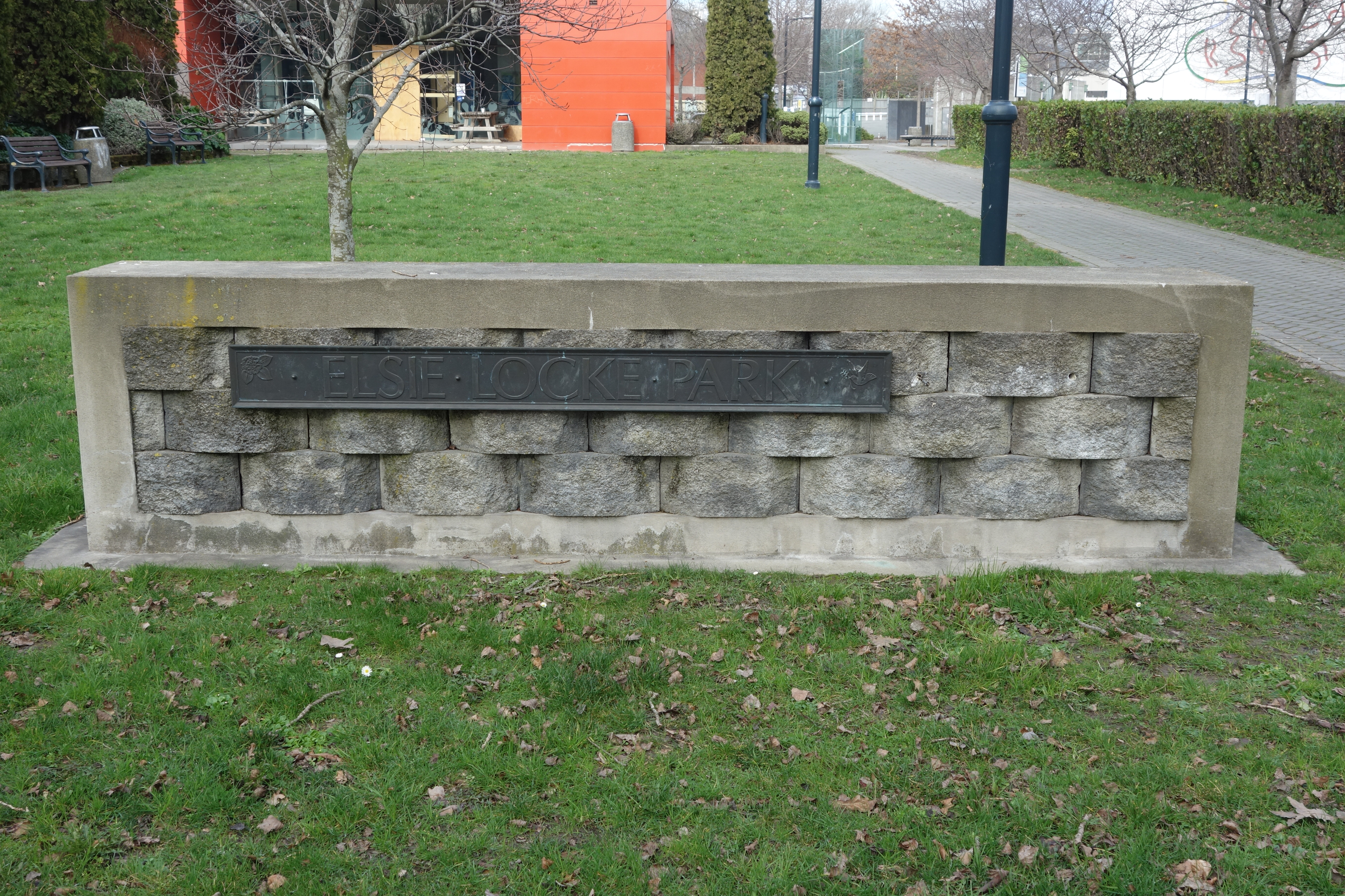 Centennial Pool - Elsie Locke Park